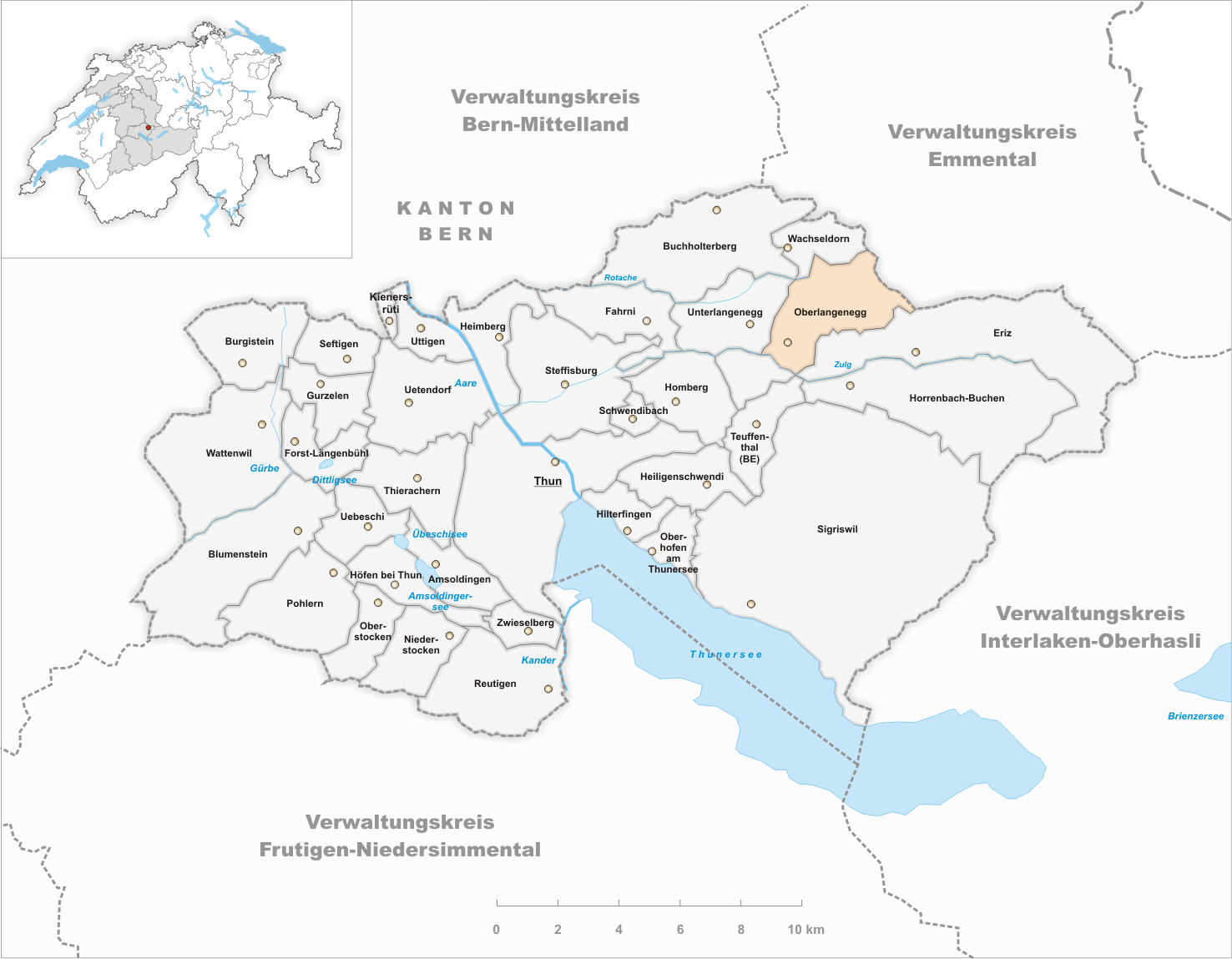 Municipality Oberlangenegg